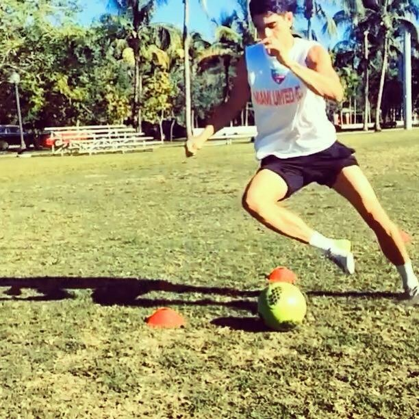 Own work taken at a Miami United FC tactical morning practice at Key Biscayne. Miguel Mesa was the Head Coach at the time.